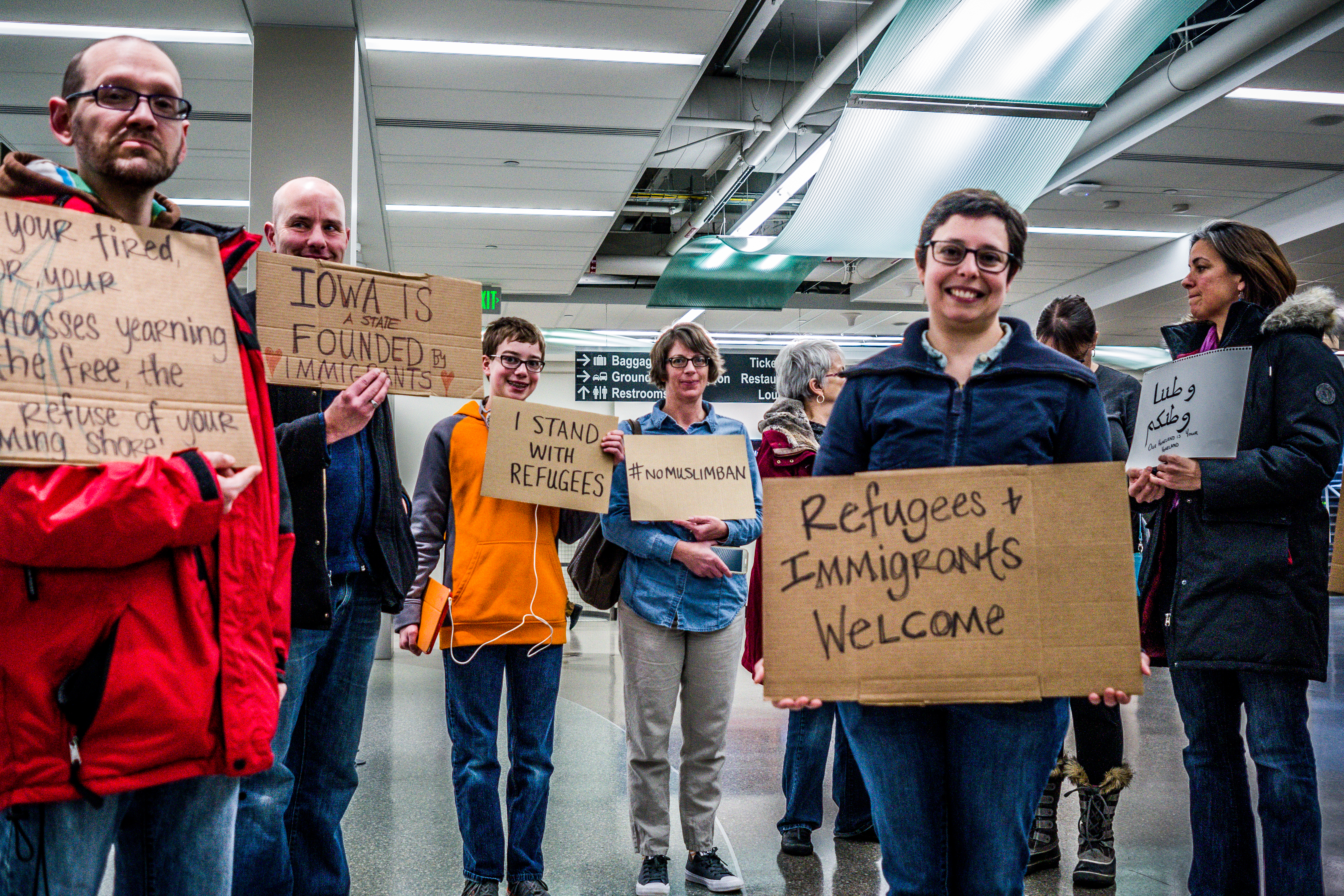 A small but committed group of protesters at the Des Moines International Airport were among tens of thousands around the country who protested Trump's ban against Muslims and refugees.